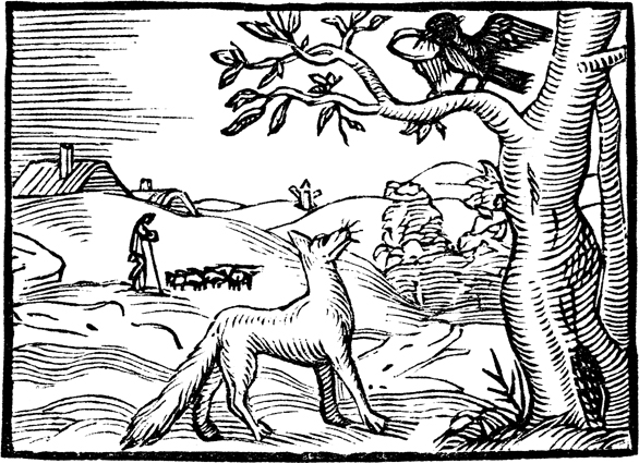 Woodcut for Guillaume Guéroult's Rooster and the Fox